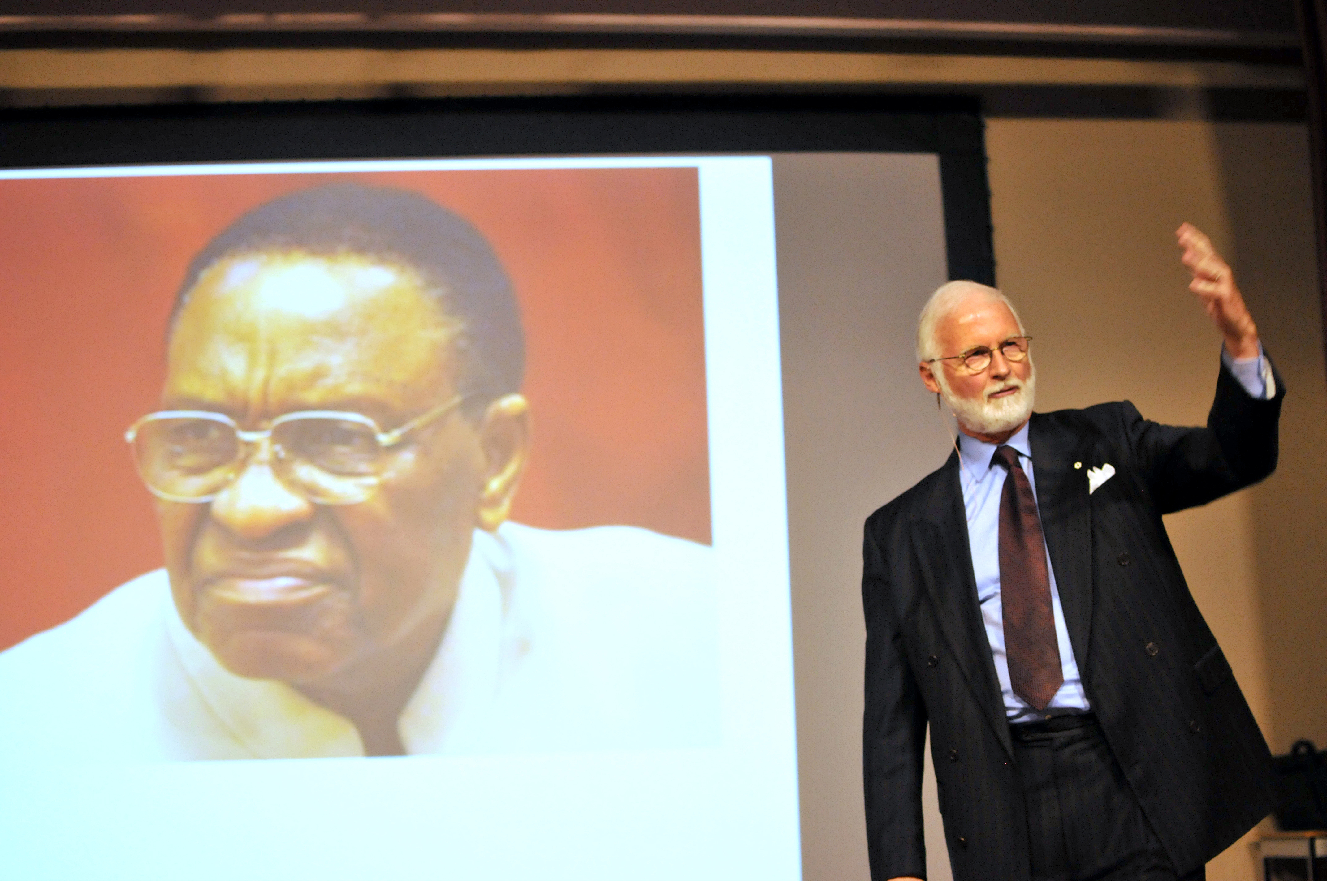 Bob Fowler - Sleeping with al Qaeda - President's Lecture Series 2013